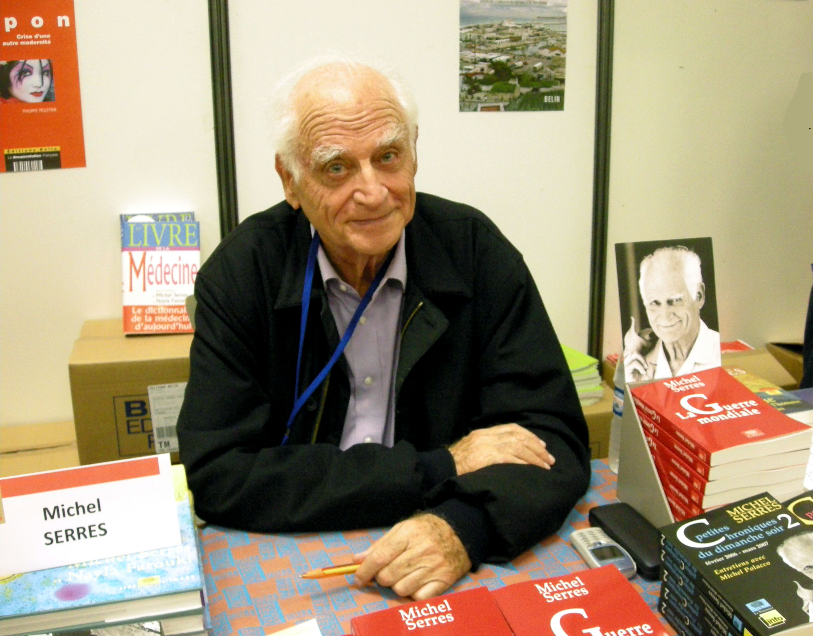 French philosopher Michel Serres at the 19th International Festival of Geography held in Saint-Dié-des-Vosges in October 2008